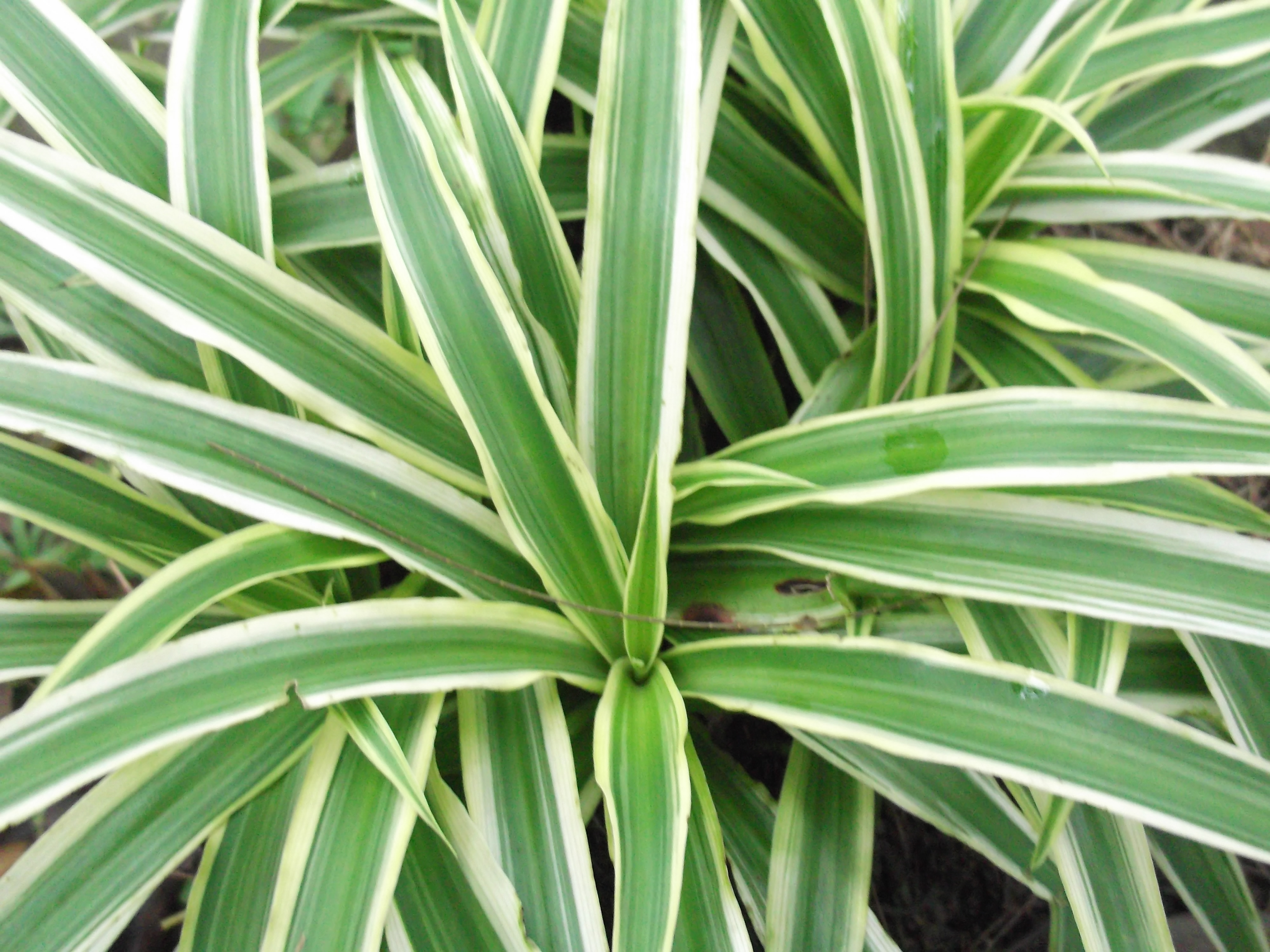 Ribbon plant,fresh green-margin edged in white.